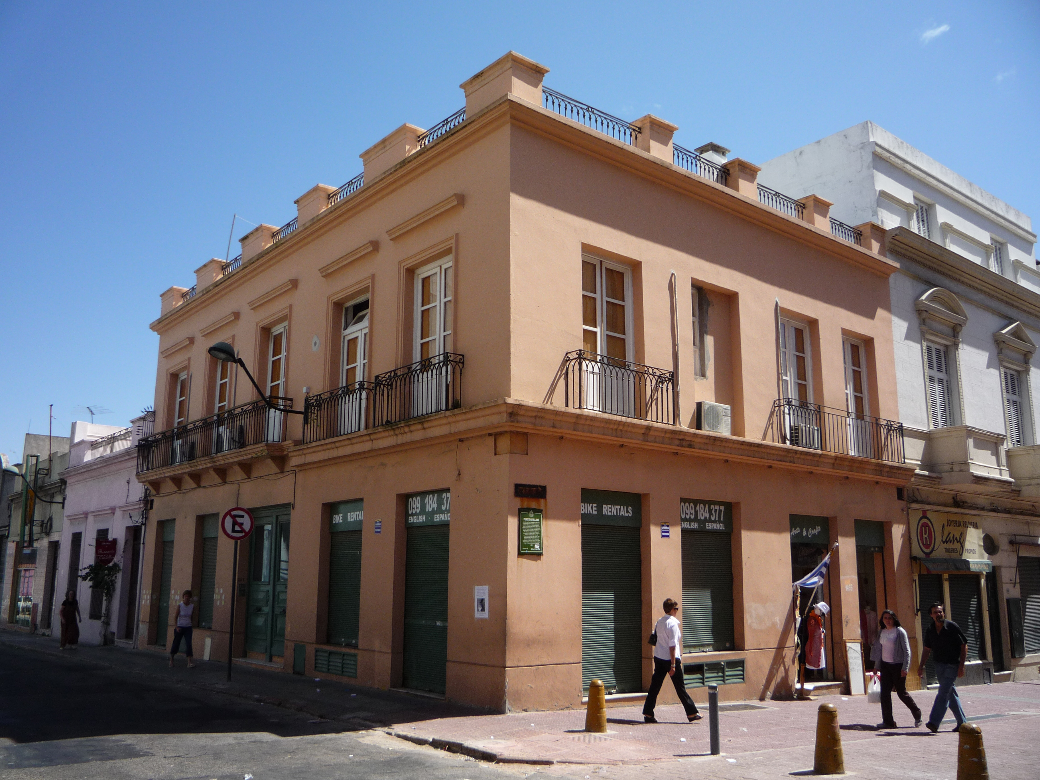 Perez Castellano House in Montevideo (early 19th c.)